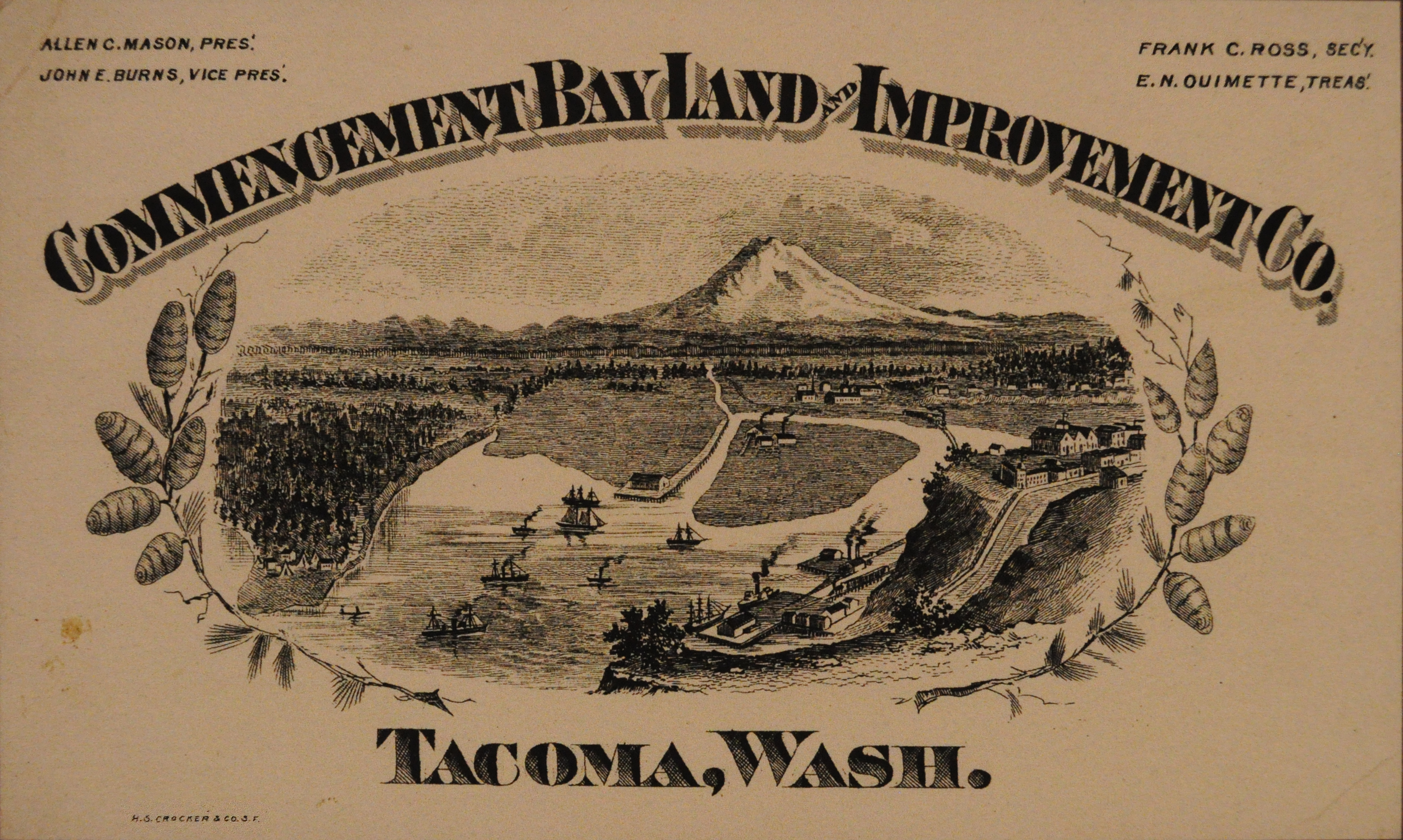 Commencement Bay Land and Improvement Co. business card. "Allen C. Mason, Pres'.; John E. Burns, Vice Pres'.; Frank E. Ross, Sec'y; E.N. Ouimette, Treas'." The company was heavily involved in the development of Tacoma, Washington. Washington State History Museum. Washington State Historical Society Collections item 2003.10.14.